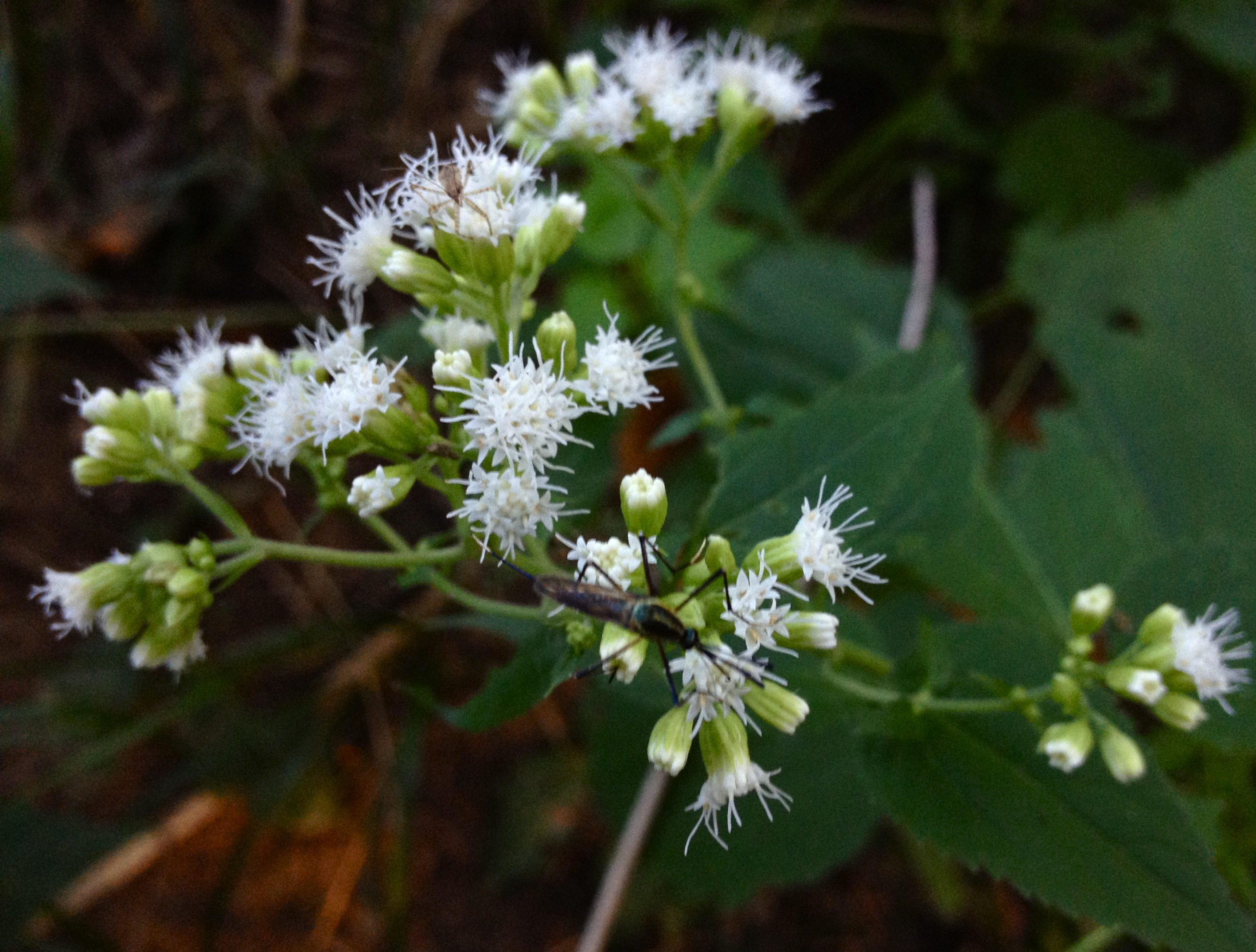 Photo of Ageratina altissima in flower. This is a native plant growing wild in River Bend Park, Fairfax county Virginia, USA. This species is a member of the Asteraceae family.